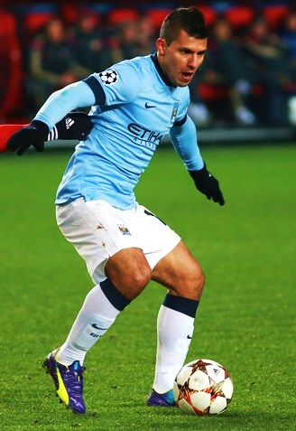 Sergio Agüero